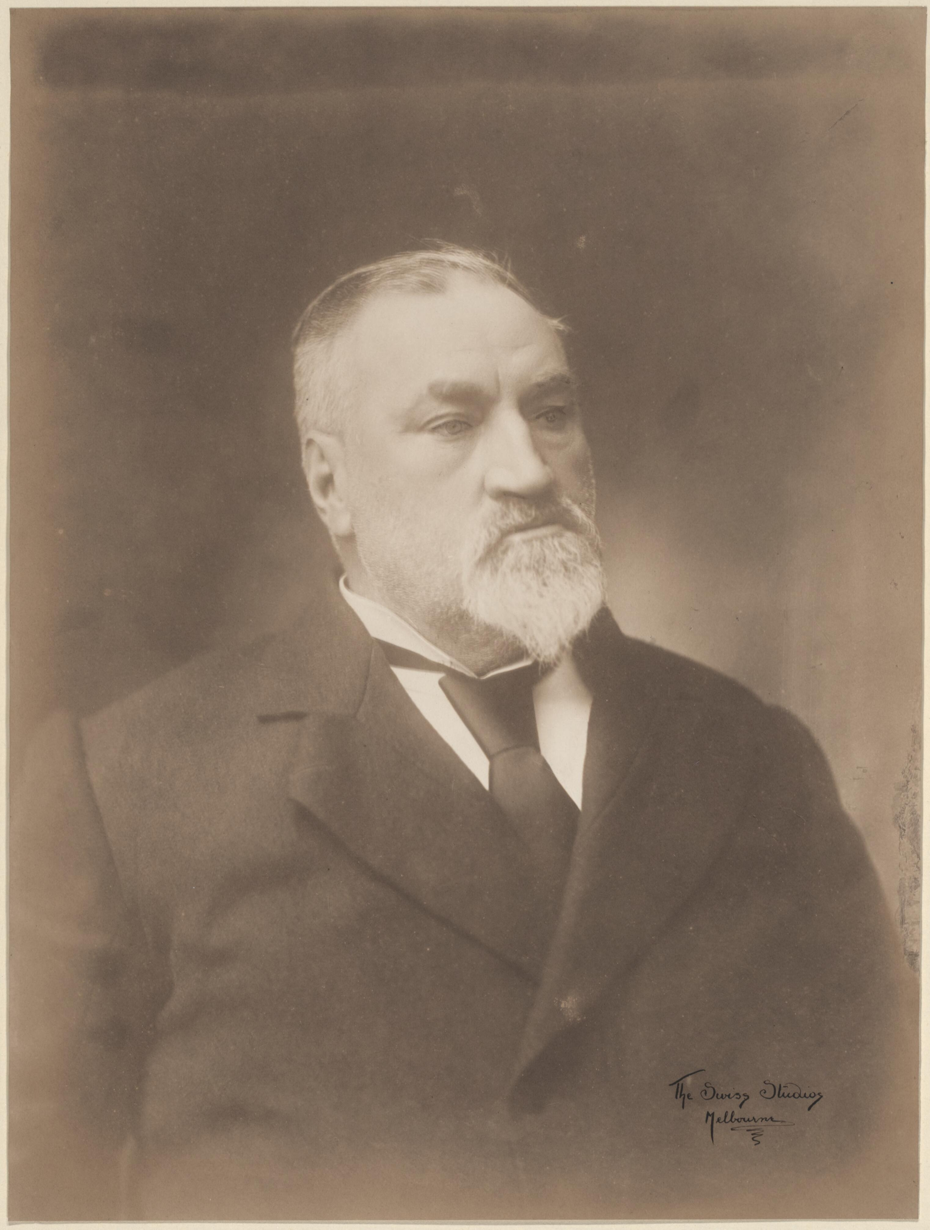 Australian politician Thomas Playford II